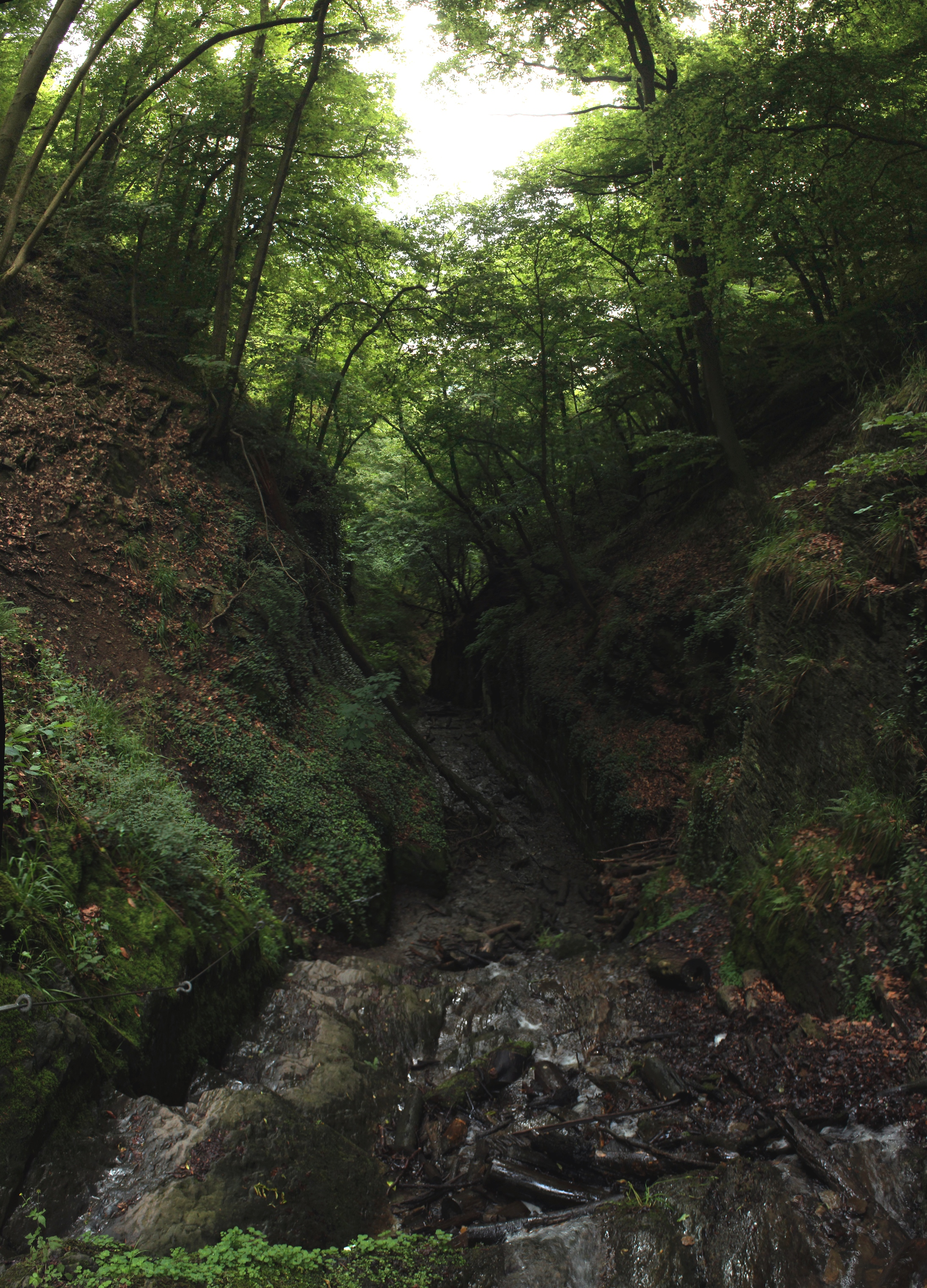 The Ruppertsklamm near Lahnstein, 2013. Image created from multiple photo's using Hugin Panorama Creator.